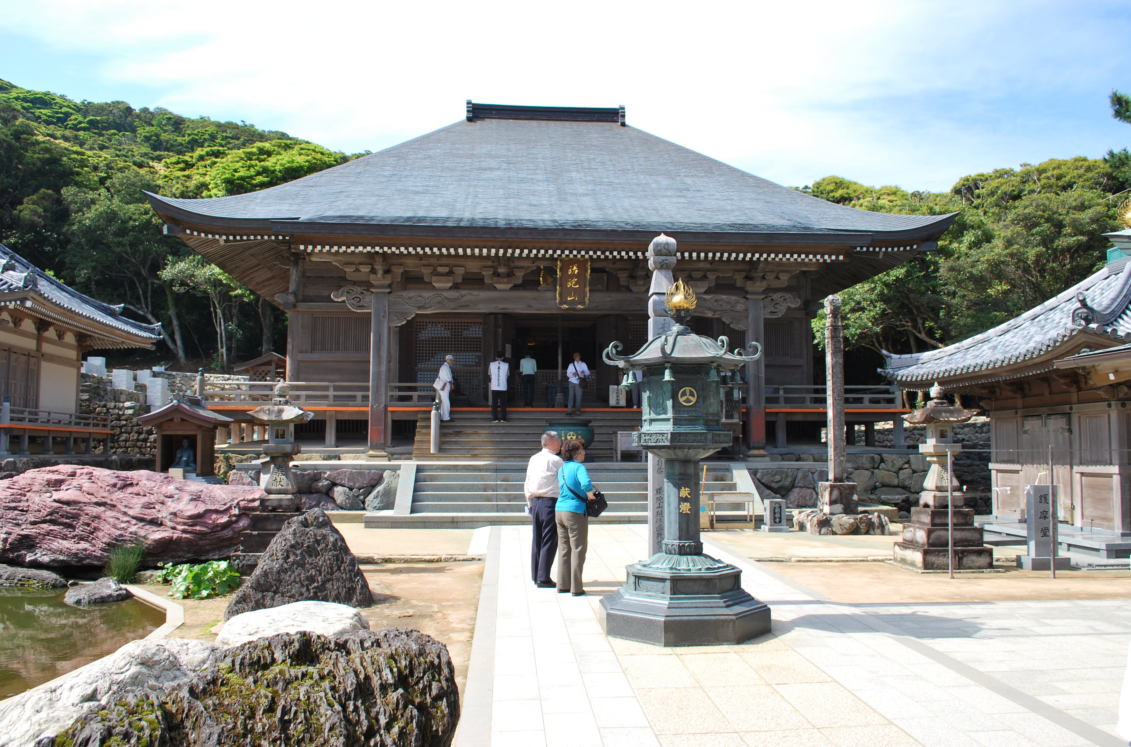 Main temple, Kongōfuku-ji